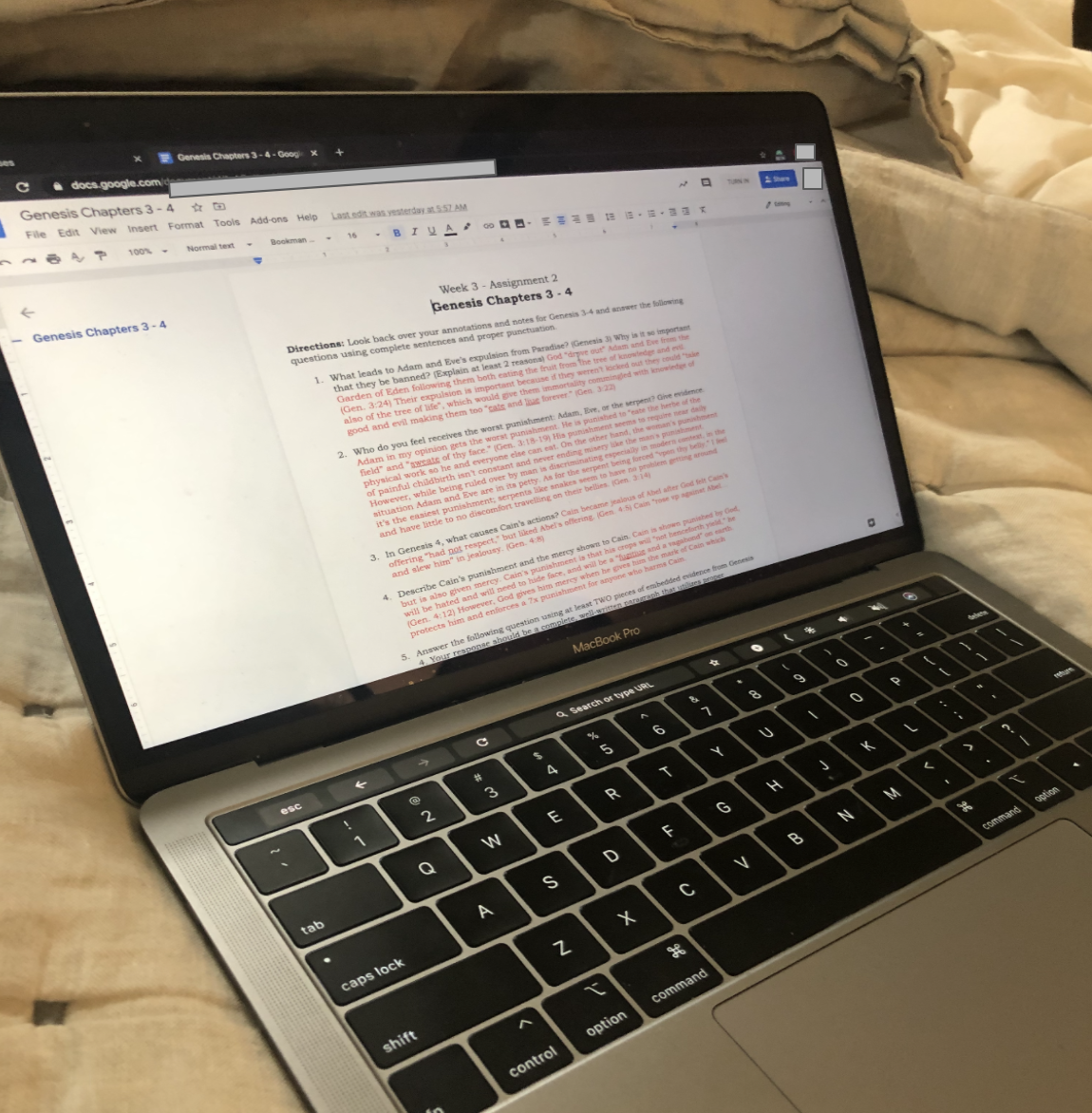 Digital assignment given during the COVID-19 pandemic, as a way to continue education during school closures and maintain social distancing. Assignment from at Texas public school.